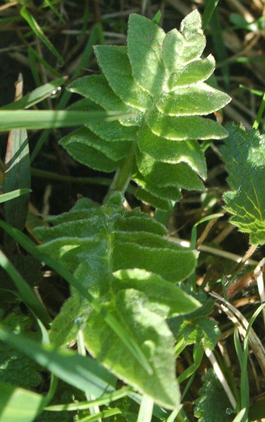 Young Rhaponticum carthamoides